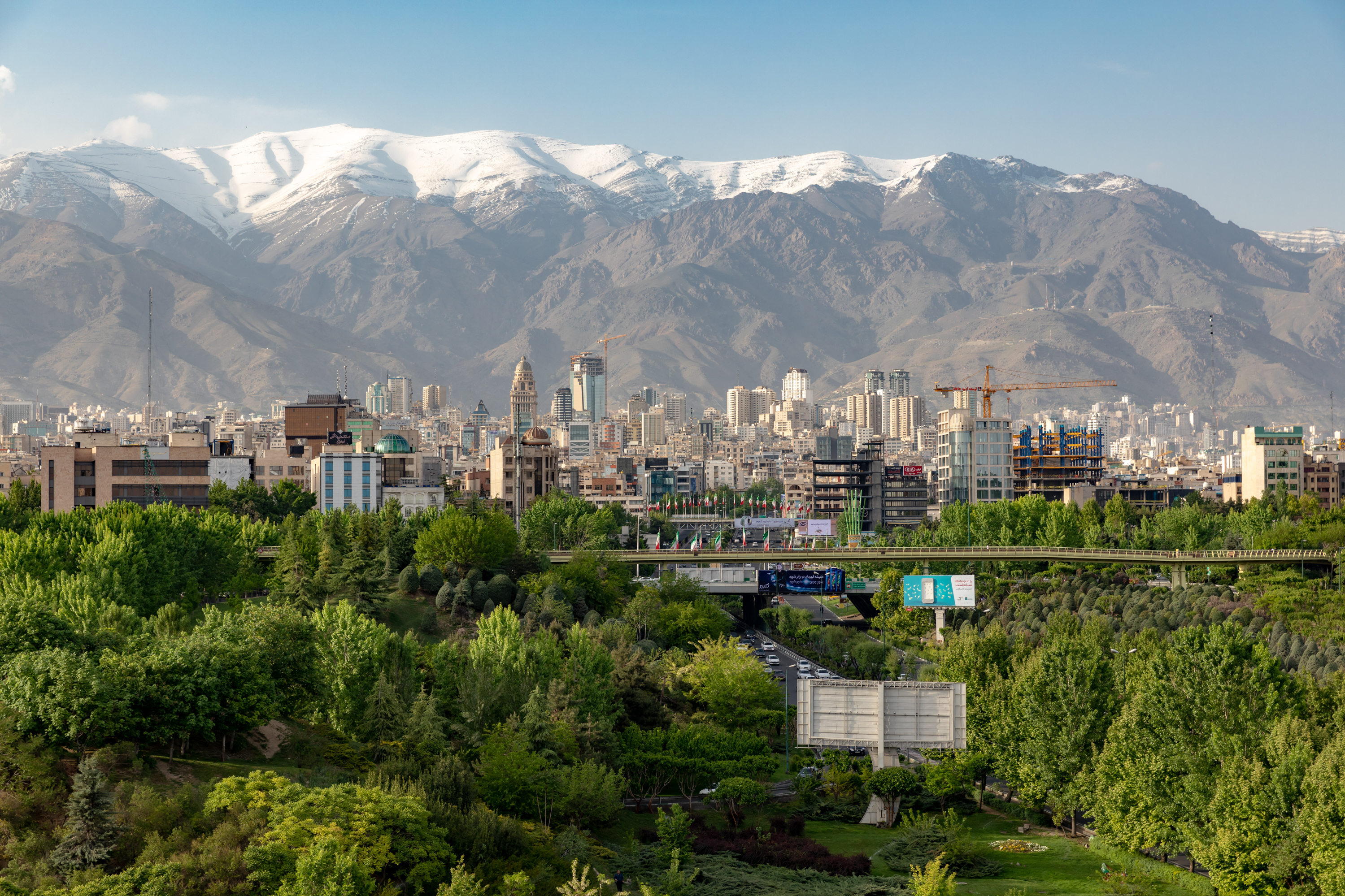 Tabiat Bridge and Ab-o Atash Park, Taleghani Park, Modares Highway, Tehran